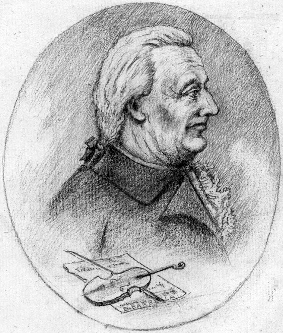 Italian violinist and composer Emanuele Barbella (1718-1777). Pencil drawing by Joseph Muller (ca. 1877-1939) after an unknown engraving.